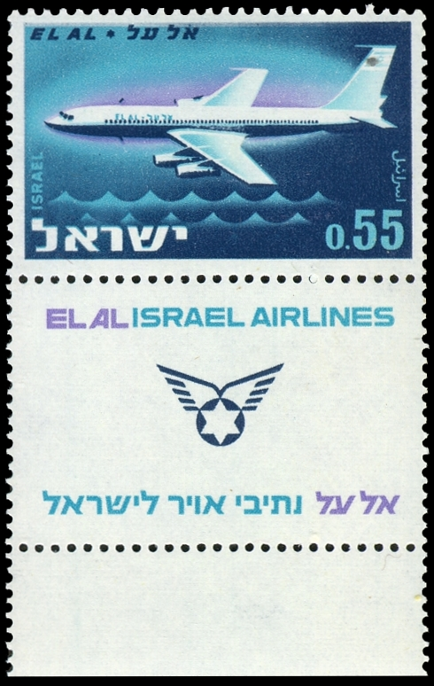 Israeli postage stamp honouring the El Al Airlines (depicts Boeing 707 airplane)